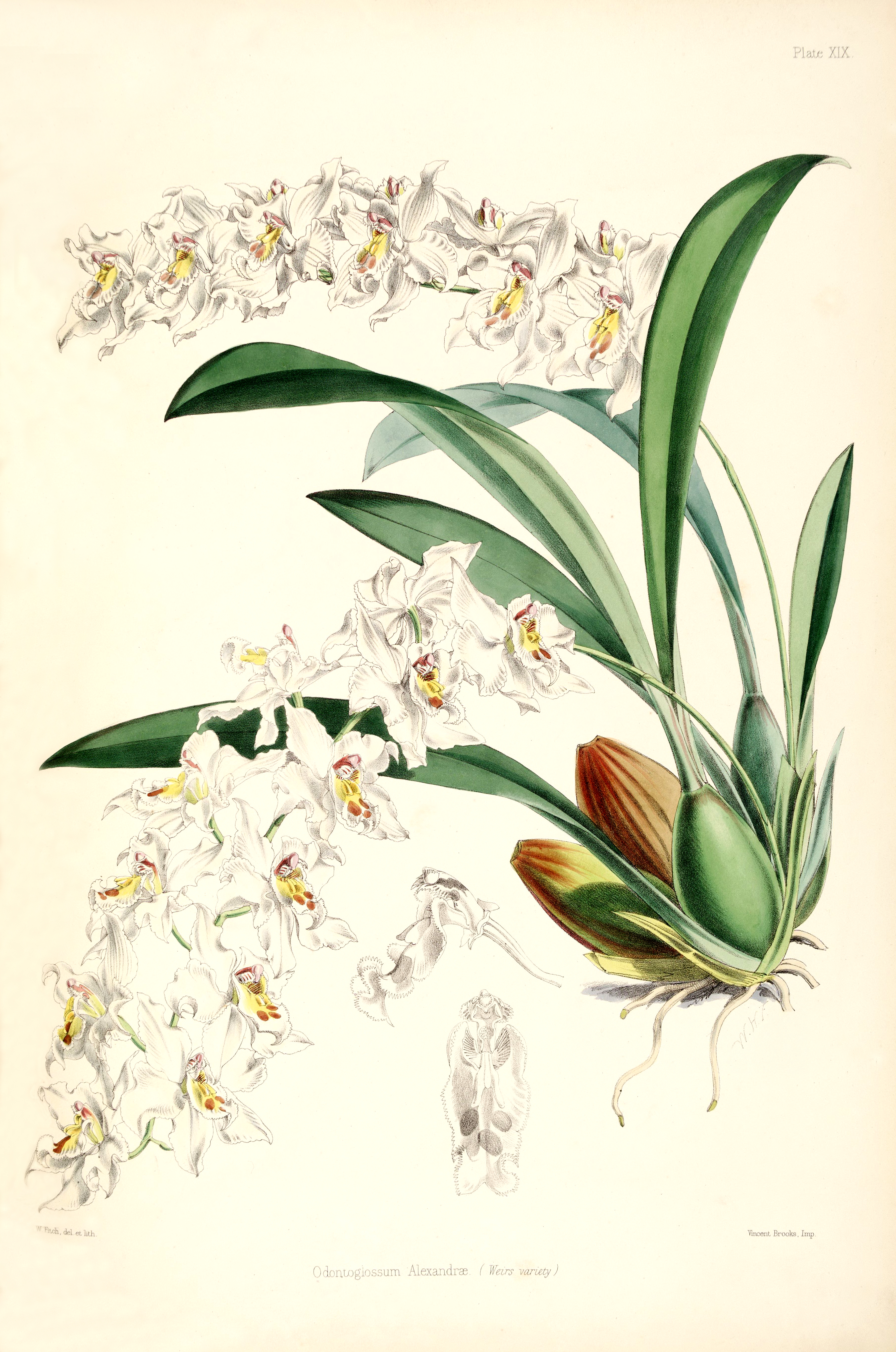 Illustration of Odontoglossum crispum (as syn. Odontoglossum alexandrae), white variety